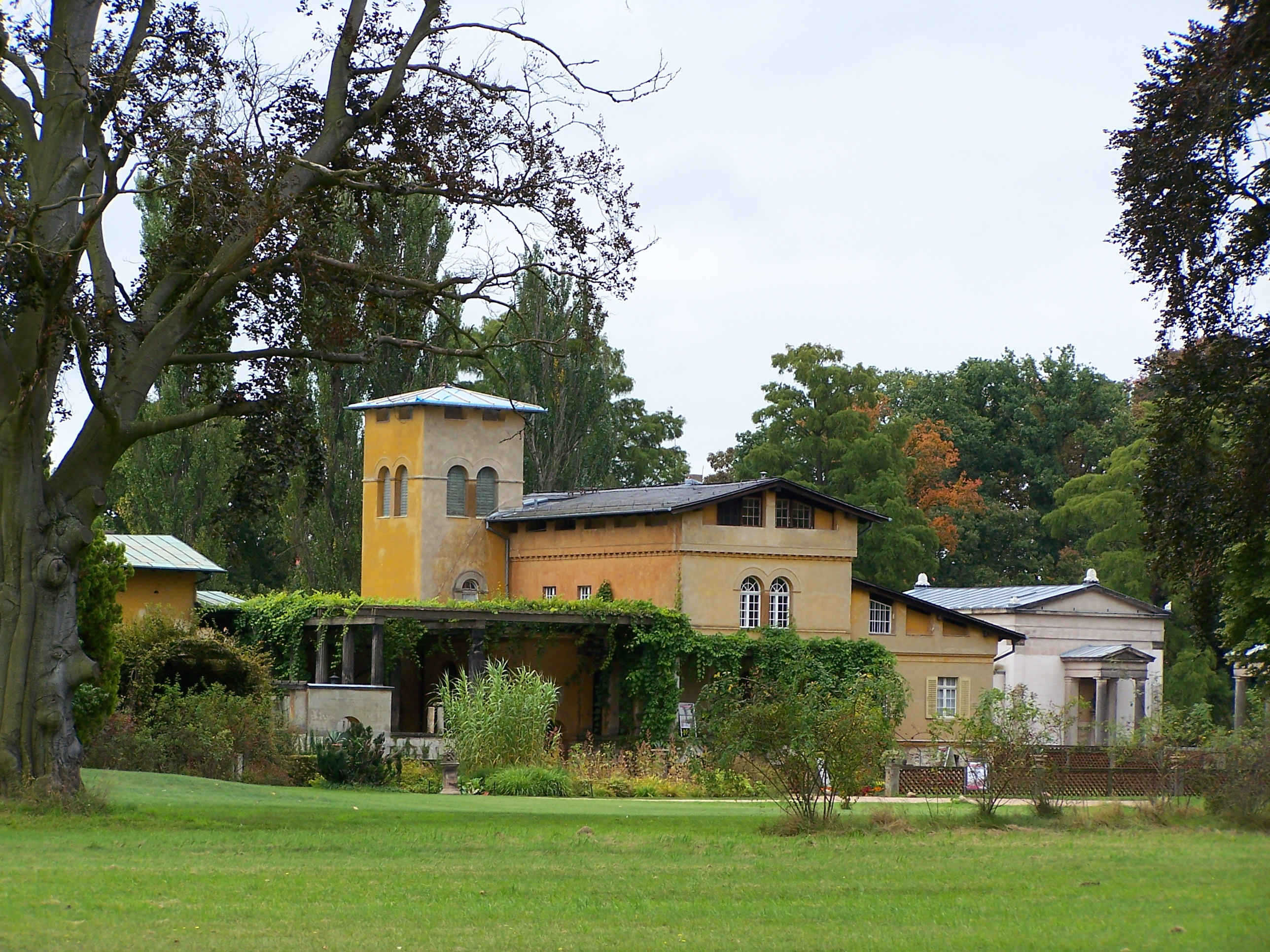 "Roman Baths" built for Friedrich Wilhelm IV between 1829 & 1840 in Sanssouci park (Potsdam, Germany).